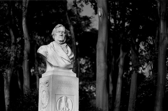 Bust of Richard Wagner in Venice. Photograph taken by me. I have released it under GFDL.